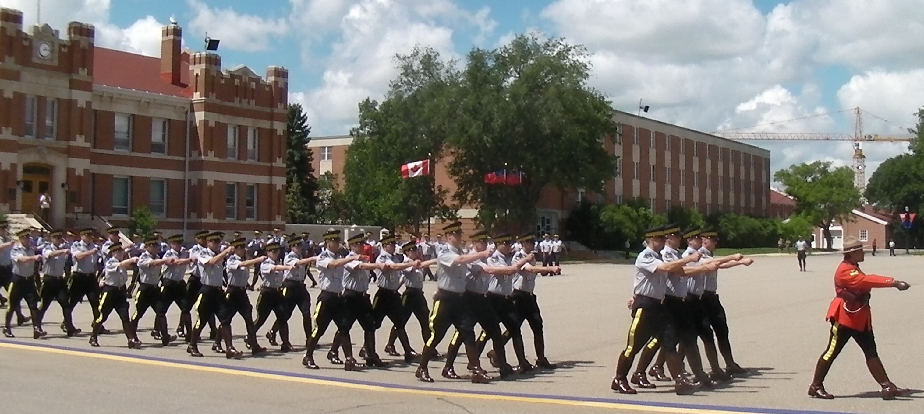 Royal Canadian Mounted Police cadets at the RCMP Academy in Regina, Saskatchewan, Canada. 1:16 PM local time.